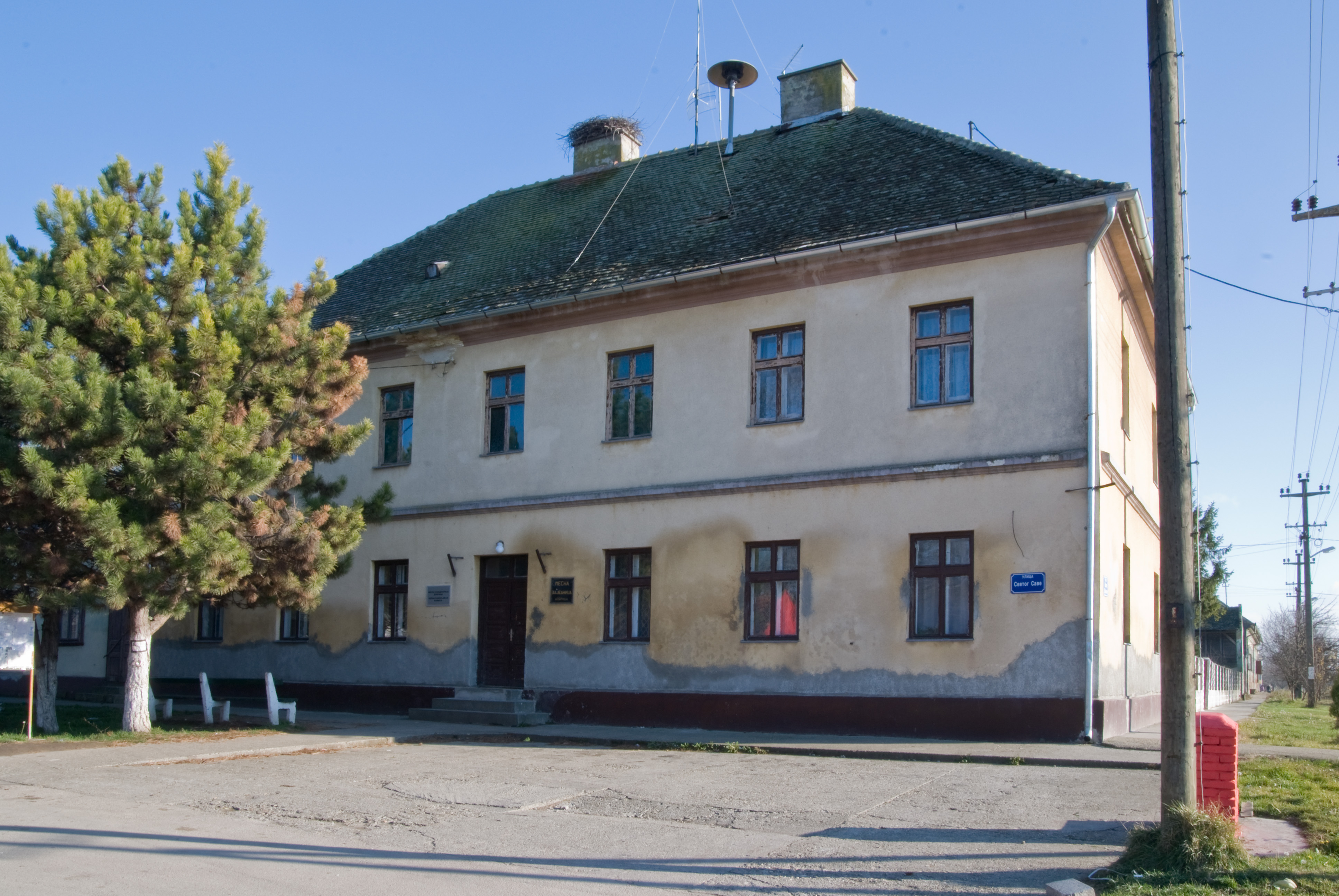 Military-border building in Dobrica, Alibunar